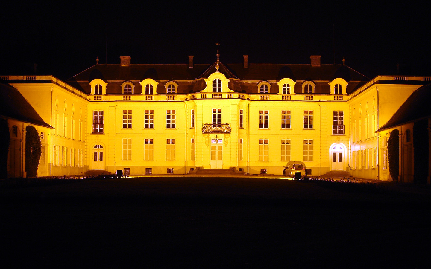 Baudries castle by night, Dikkelvenne, Gavere, Belgium